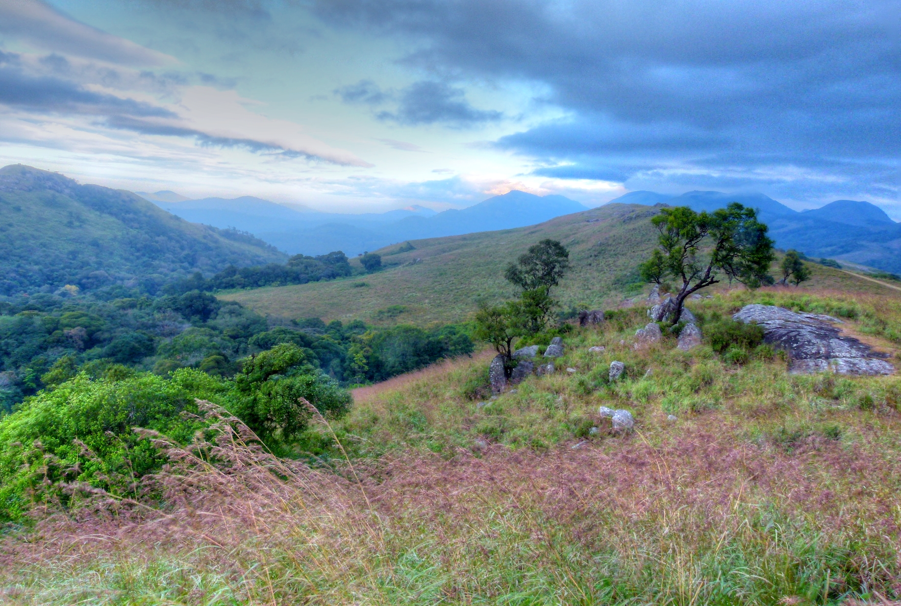 Grassland and shola forest in Jodigere, Biligirirangan Hills. HDR image.